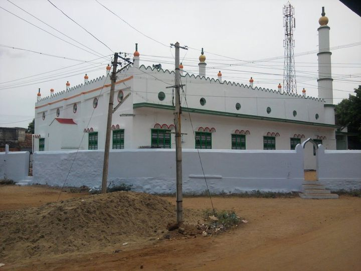 Elangakurichy biggest masjid